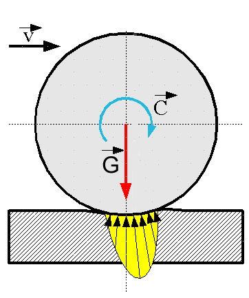 Rolling resistance